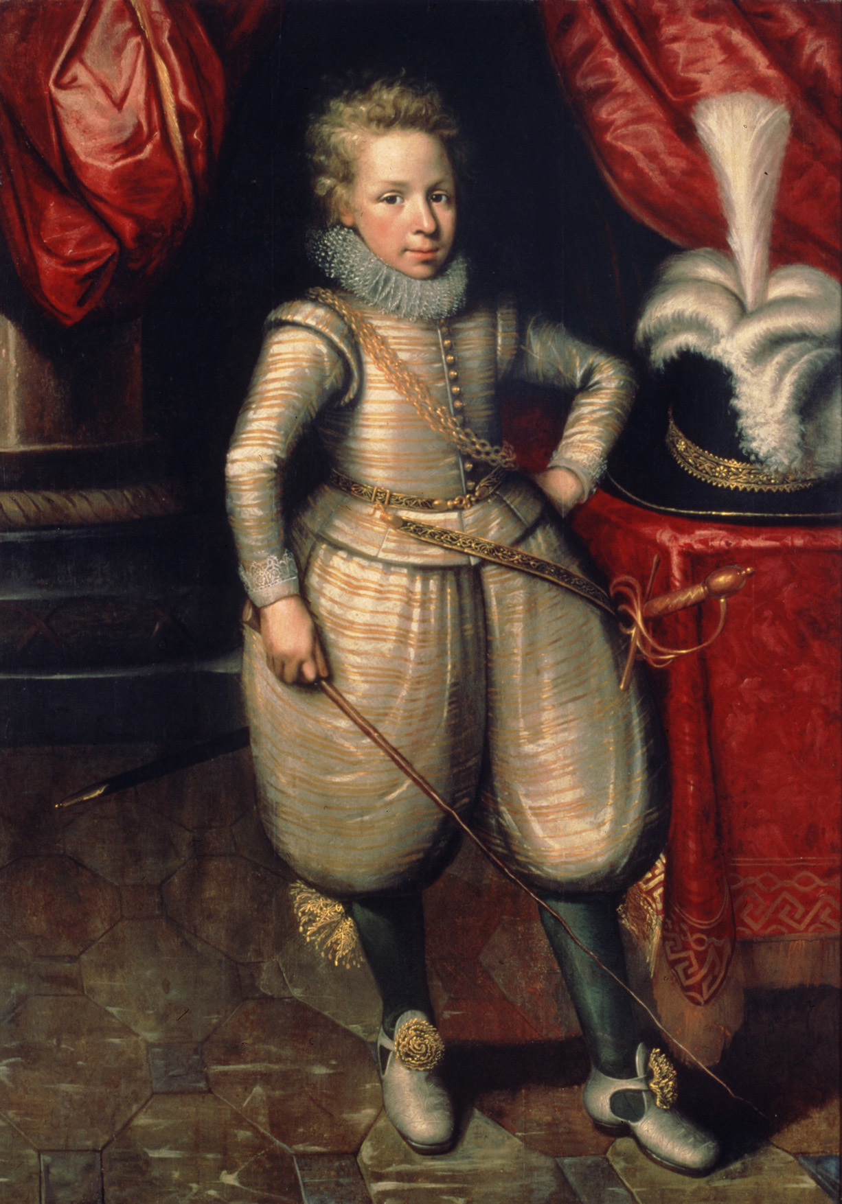 Willem van Nassau LaLecq (1601-1627)